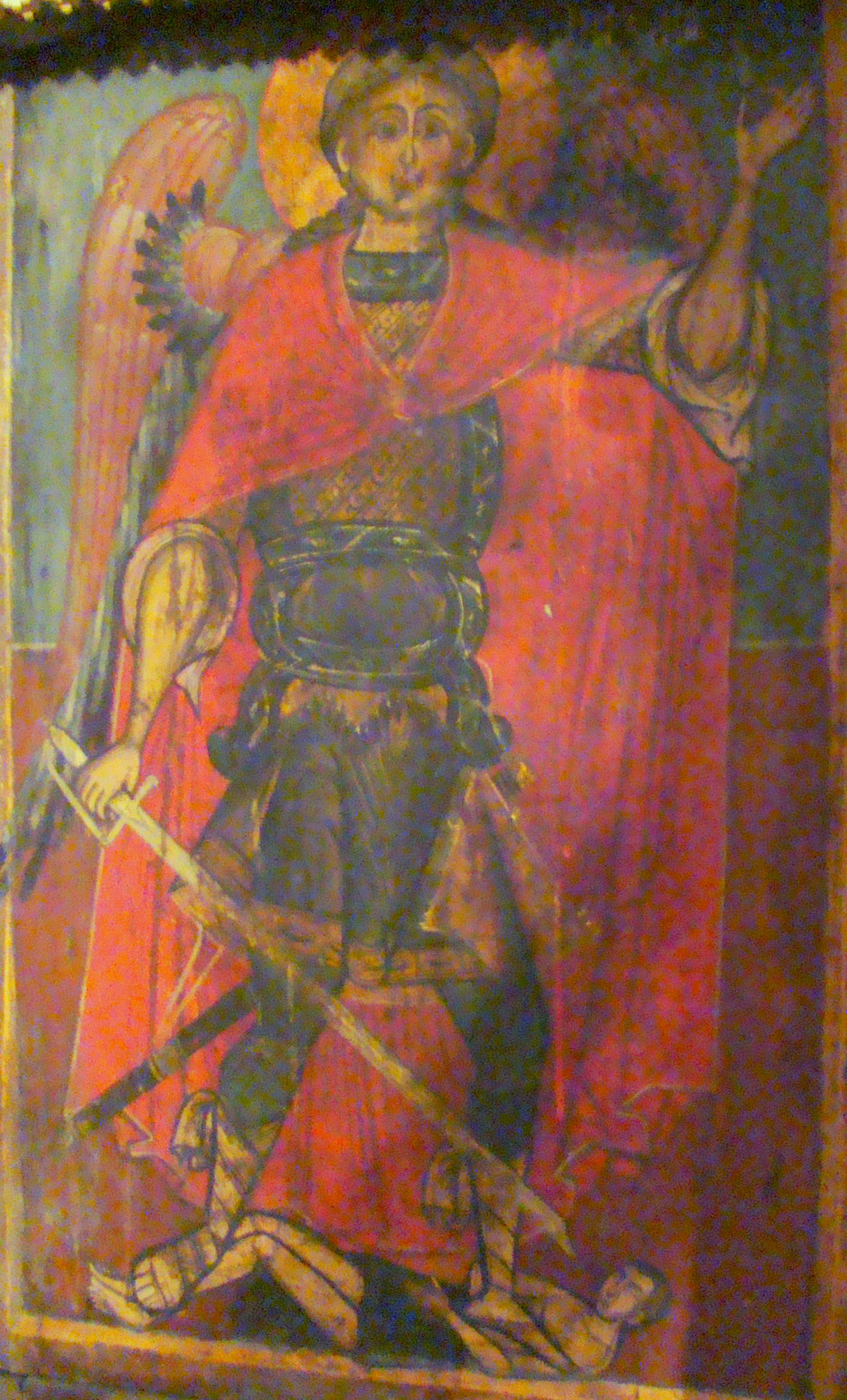 Wooden church in Rovinari, Gorj county, Romania